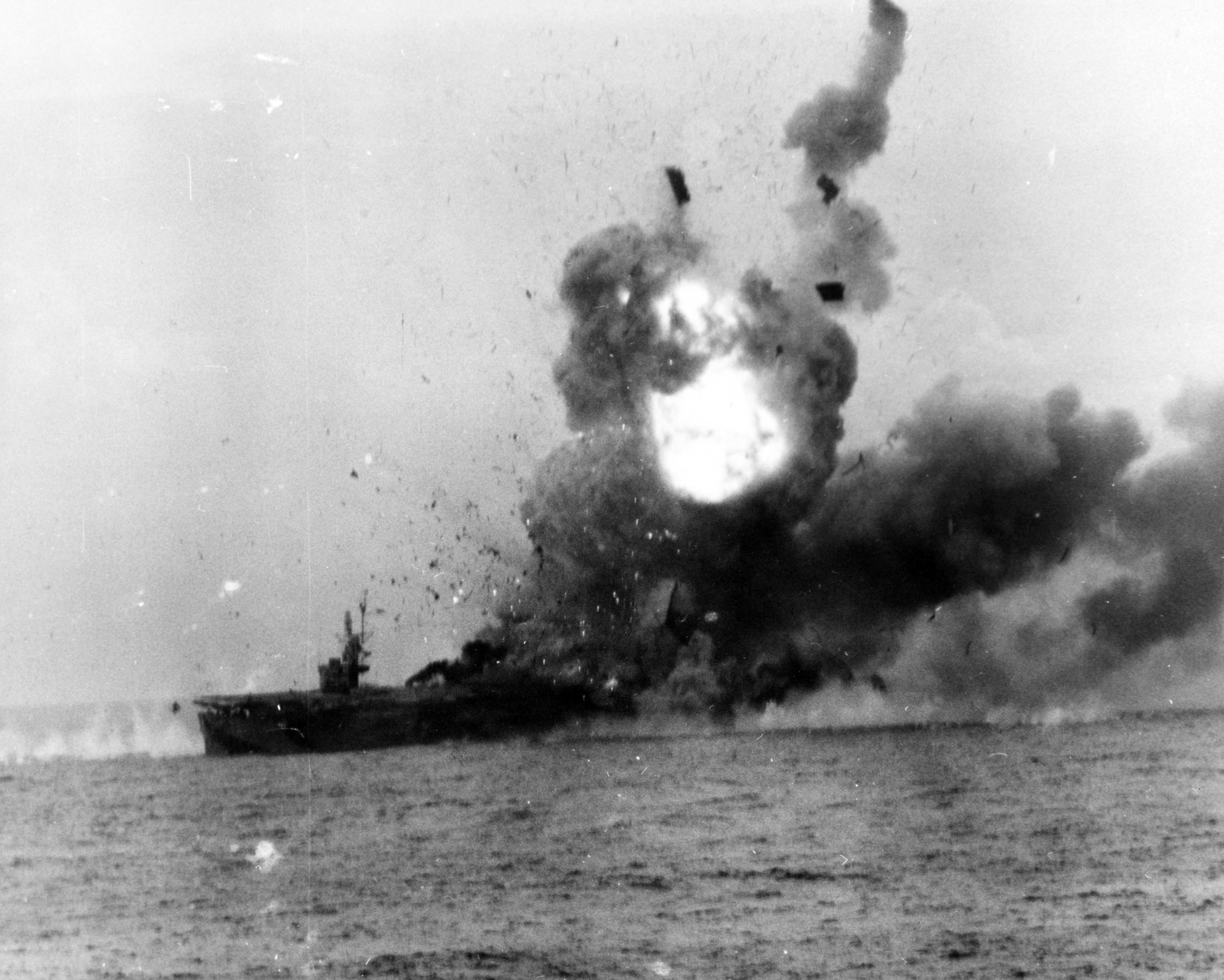 80-G-270516: Battle of Leyte Gulf, Battle off Samar, October 25, 1944. USS St. Lo (CV 63), explosion after being hit by a kamikaze. Official U.S. Navy Photograph, now in the collections of the National Archives. (2016/08/01).